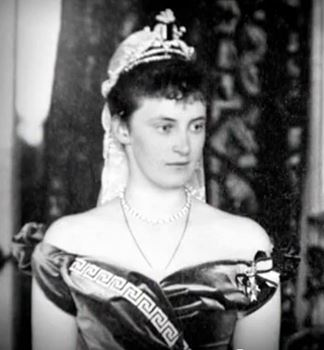 Alexandrine of Mecklenburg-Schwerin (1879-1952), Queen of Denmark